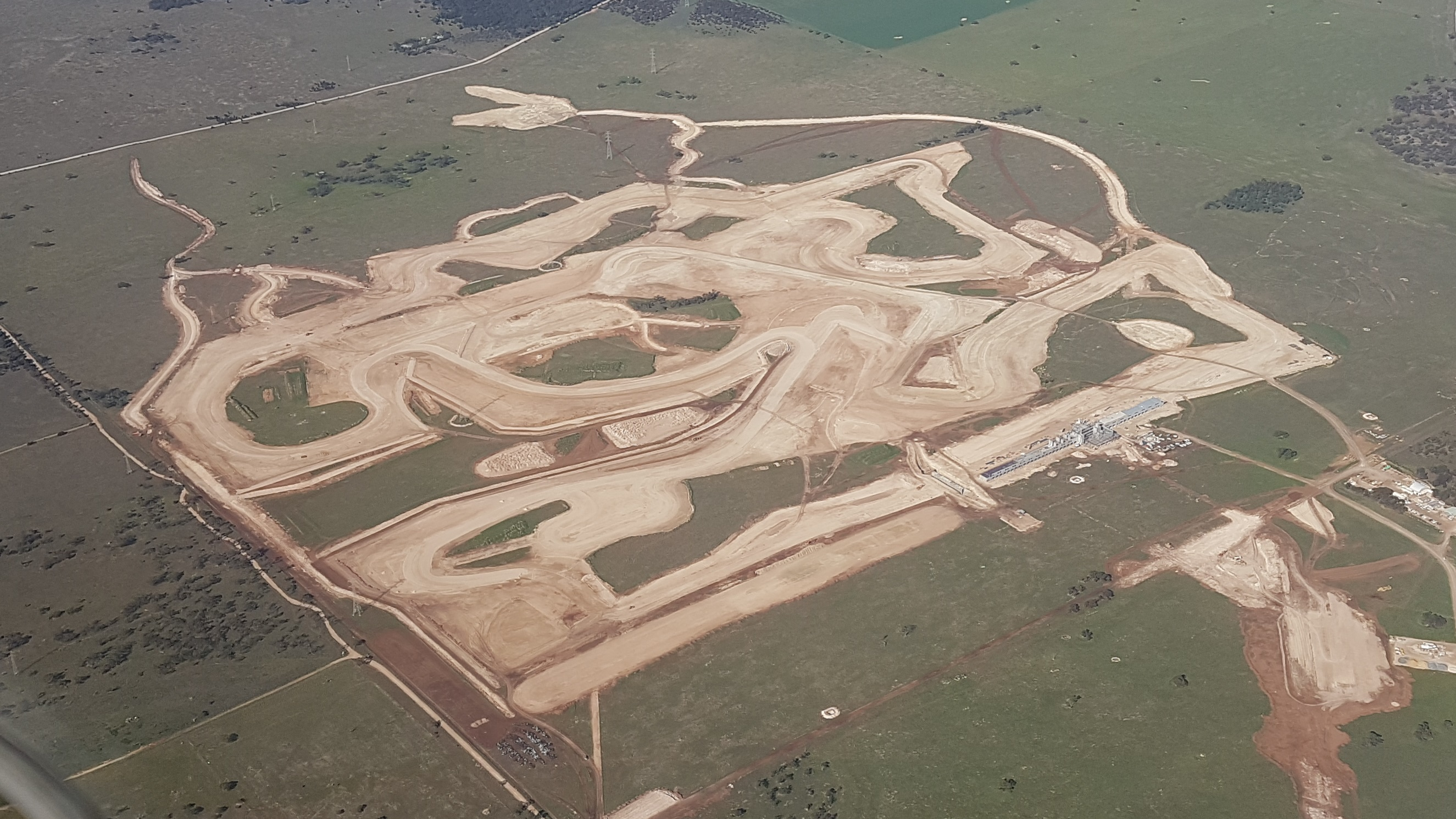 Aerial Photograph of the Bend Motorsport Park, Captured by passing aircraft.